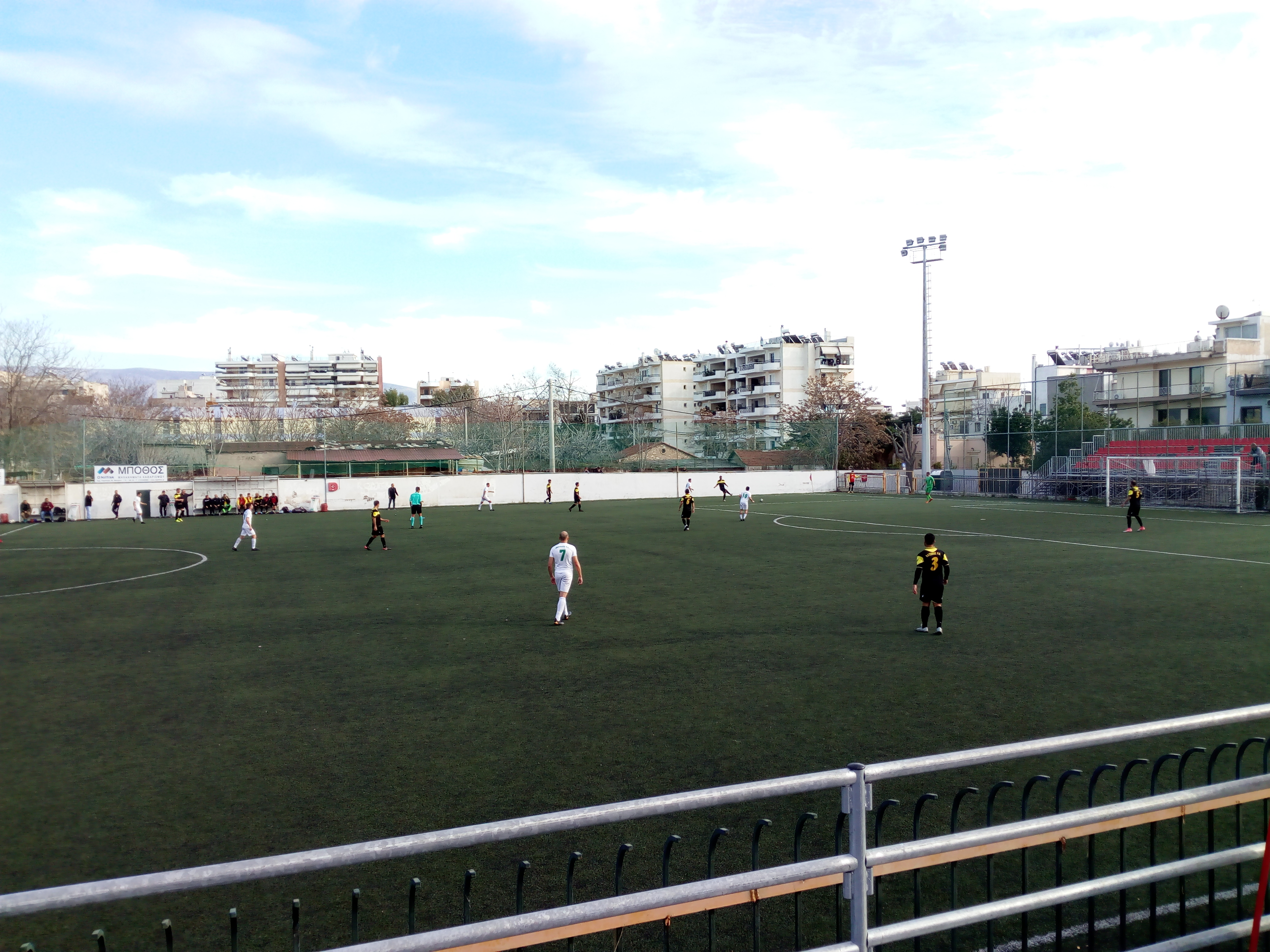 AE Moschato vs Ilisiakos 3-1 (2019/20 season).